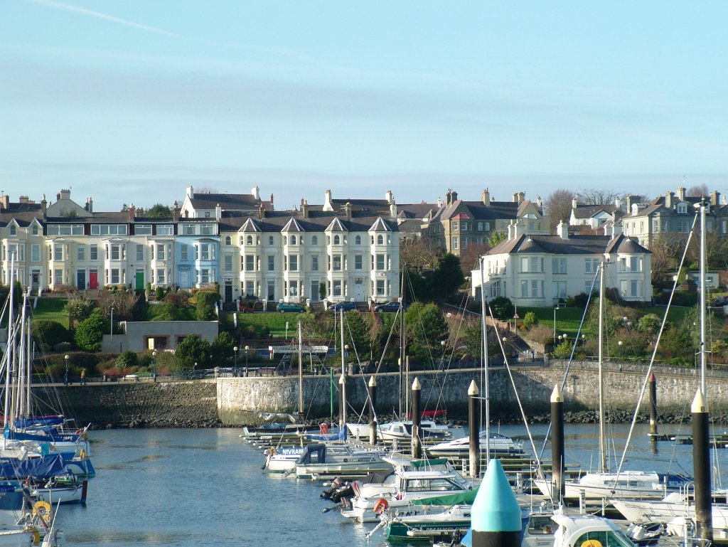 Photo of houses overlooking Bangor Marina.